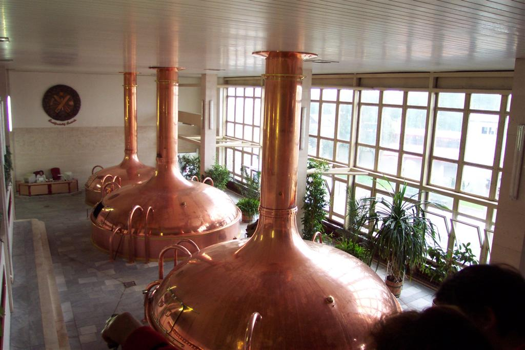 Beer vats at Budweiser brewery, Ceske Budejovice, Czech Republic. Copyright 2004. Photo by (WT-en) Brendan Macpherson. Licensed under by-sa (all versions) and GFPL.